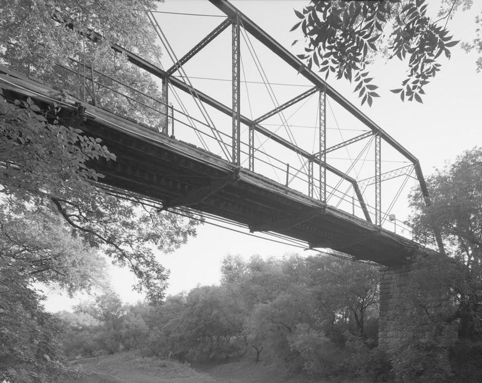 Fort Griffin Iron Truss Bridge, Spanning Clear Fork of Brazos River at County Rout, Fort Griffin vicinity (Shackelford County, Texas) cropped This image or media file contains material based on a work of a National Park Service employee, created as part of that person's official duties. As a work of the U.S. federal government, such work is in the public domain in the United States. See the NPS website and NPS copyright policy for more information. Creator: U.S. Department of the Interior, National Park Service, Historic American Engineering Record. Survey number HAER TX,209-FOGRIF.V,1-2 Source: U.S. Library of Congress, Prints and Photographs Division, "Built in America" Collection. Copyright: "The original measured drawings and most of the photographs and data pages in HABS/HAER/HALS were created for the U.S. Government and are considered to be in the public domain." Object location32° 56′ 05″ N, 99° 13′ 26″ W